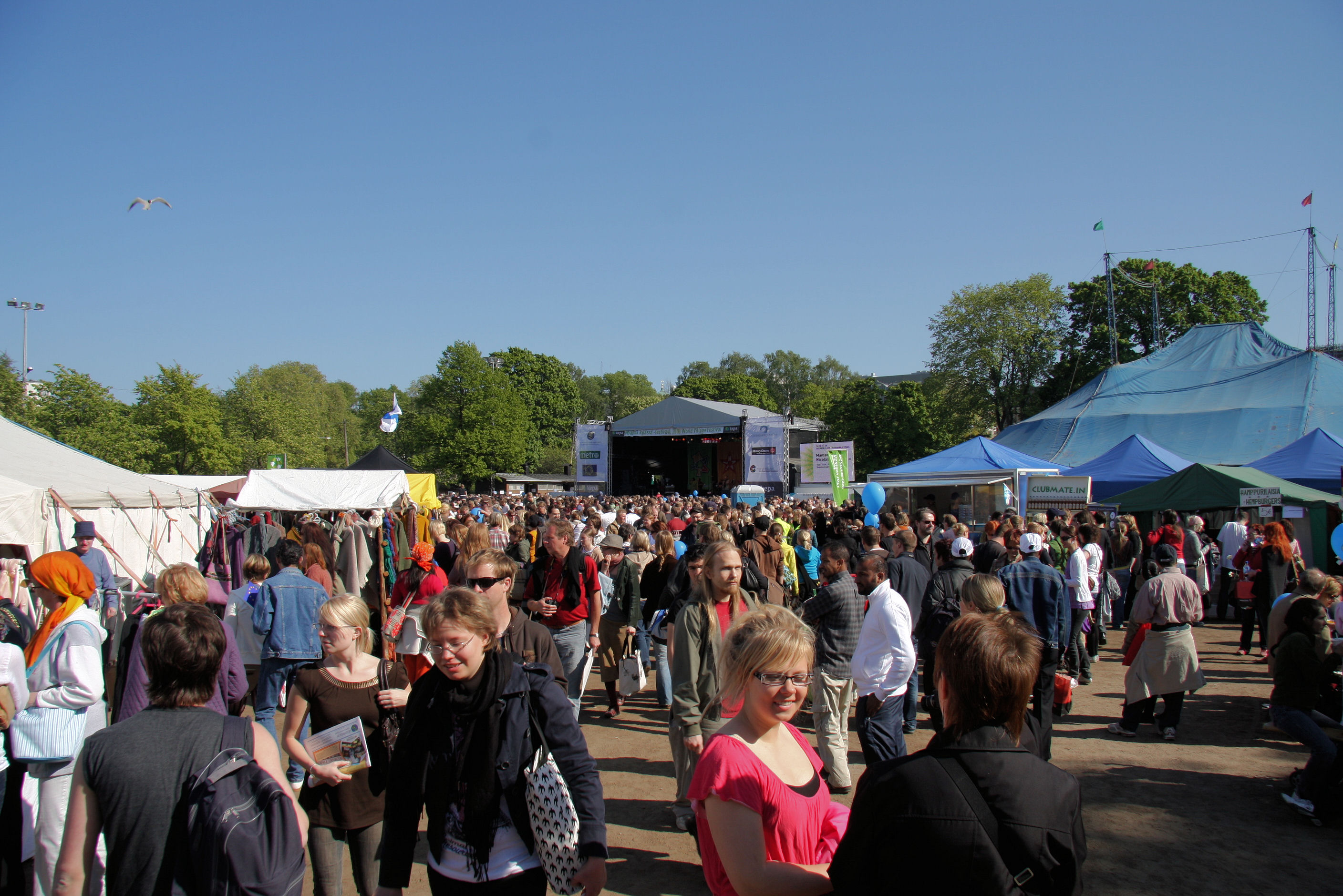 World Village Festival, Kaisaniemi, Helsinki, Finland 2008